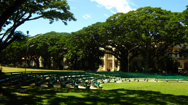 Silliman University Amphitheater